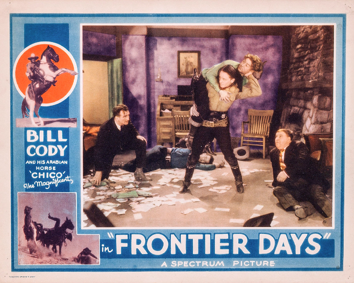 Lobby card for the 1934 film Frontier Days with Bill Cody and Chico.